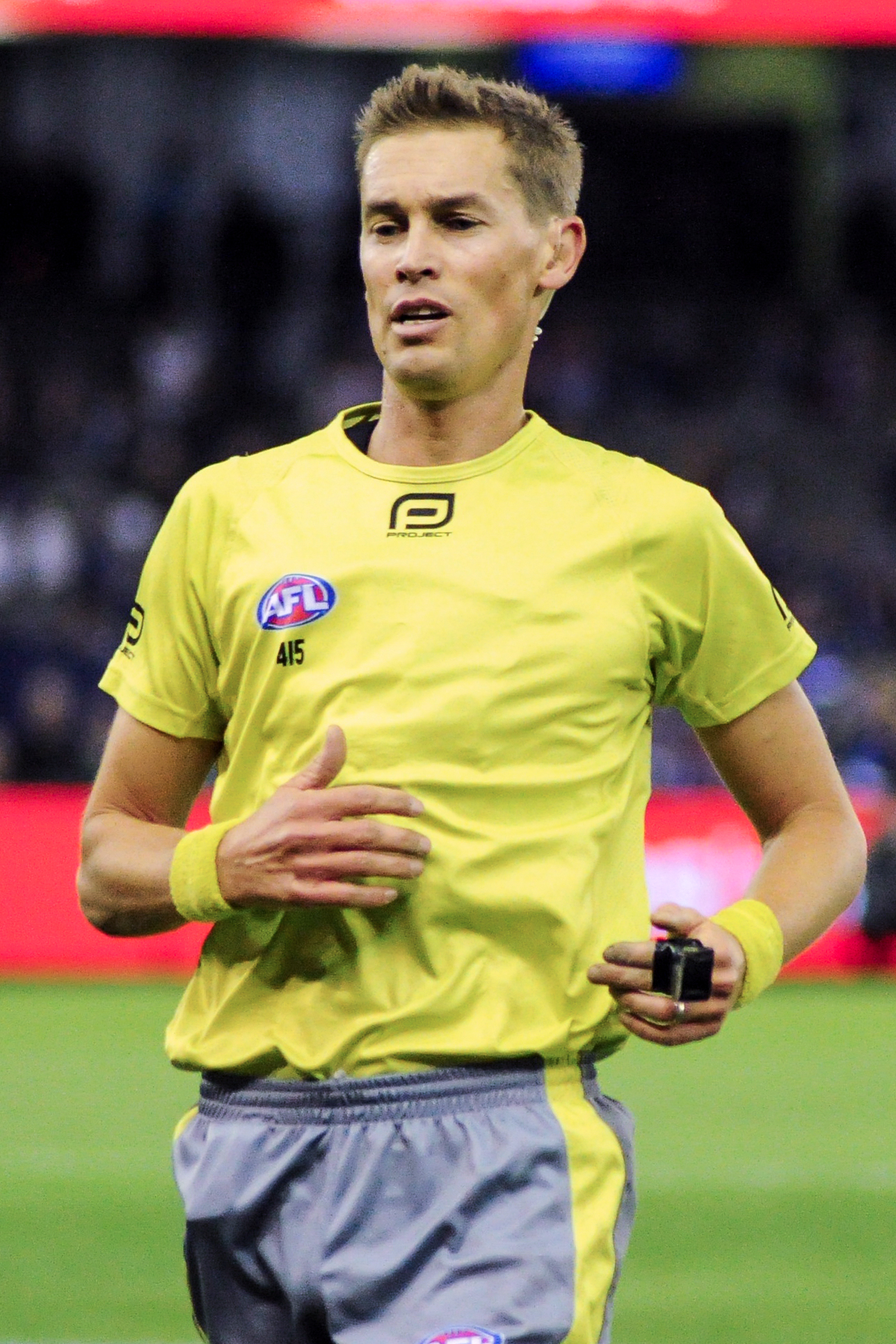 Robert Findlay during the AFL round six match between the Western Bulldogs and Carlton on Friday, 27 April 2018 at Etihad Stadium in Melbourne, Victoria.